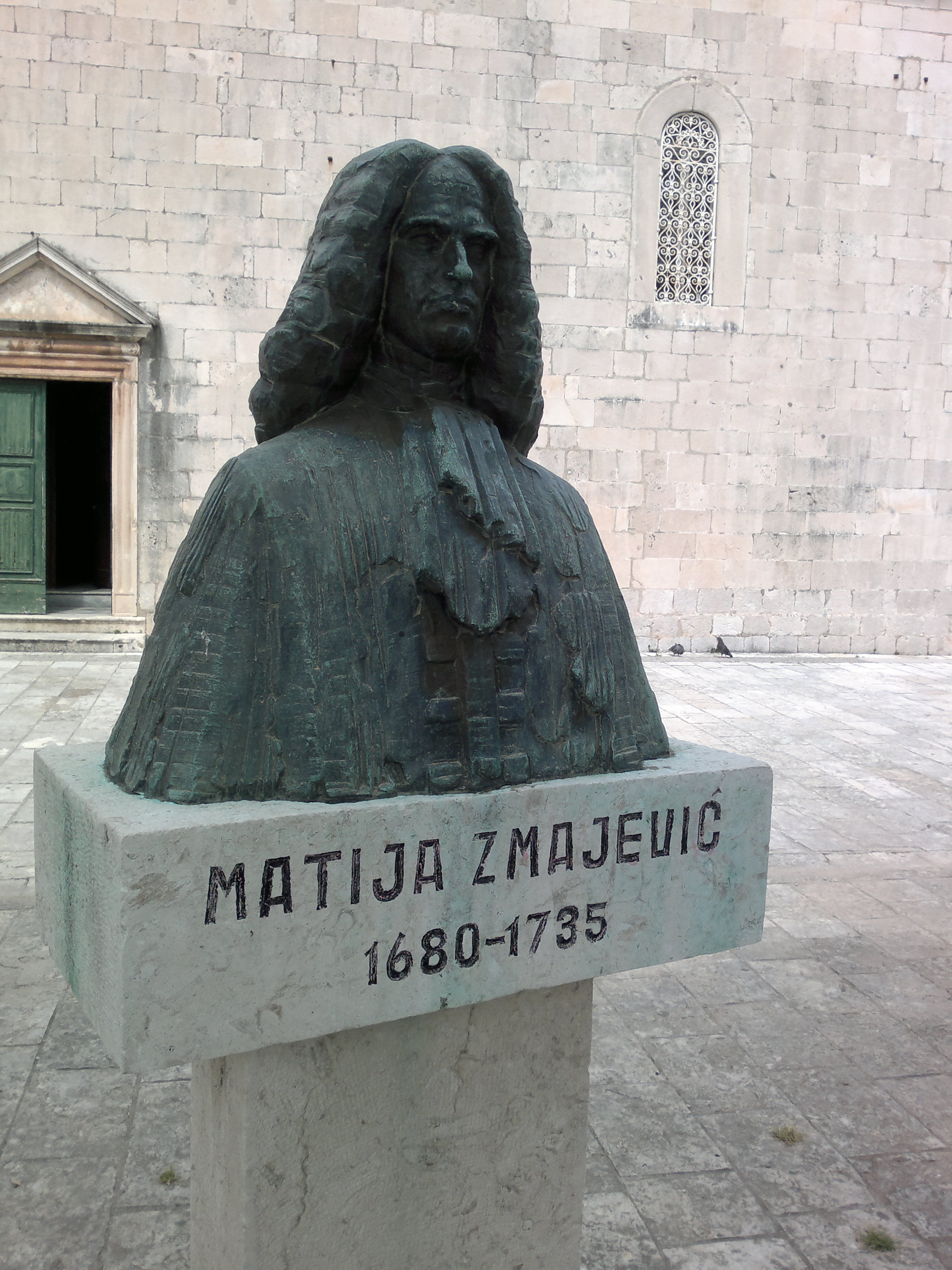 Bust of Matija Zmajevic in Perast